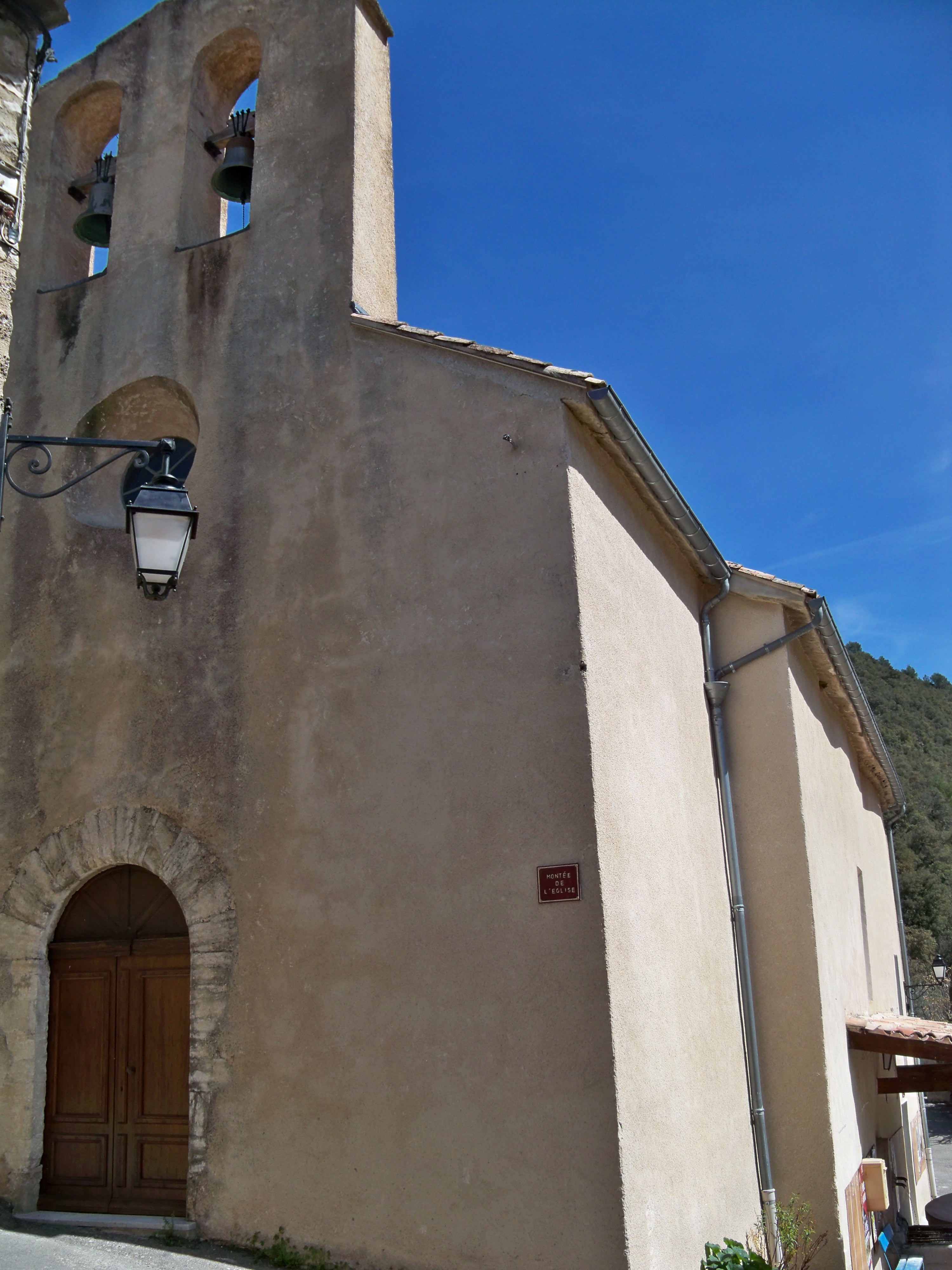 Saint Léger du Ventoux chapel, Vaucluse France